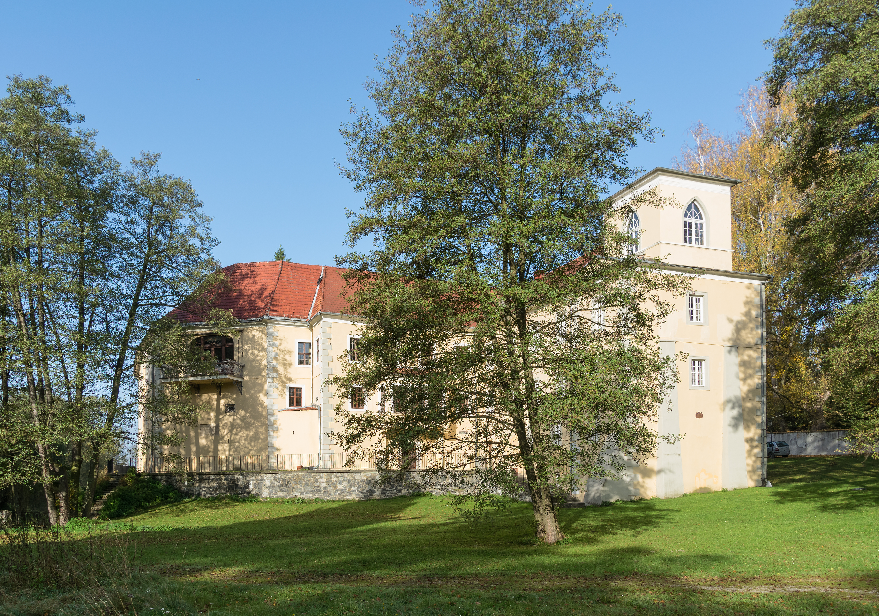 Palace in Trzebieszowice